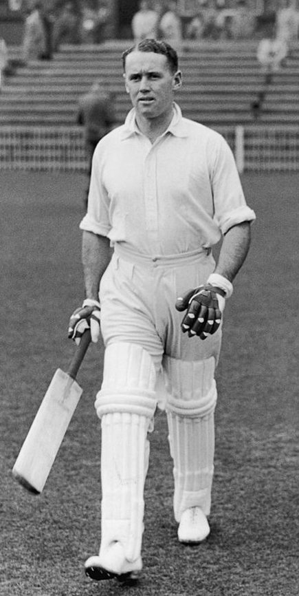 Giff Vivian of the New Zealand touring team come out to bat against England at Old Trafford, 1937.